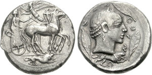 Sicily, Leontini AR tetradrachm, (16.10g) c. 470-465 BC Slow quadriga driven right by charioteer crowned by Nike flying left above, lion running right in exergue. L EO N TIN O Laureate head of Apollo right, of late archaic style, three bay leaves around, lion running right below. BMC14; SNG ANS 217; Gulbenkian 211; Randazzo 89; Dewing 623. VF Sear notes: "This masterpiece of late archaic art is probably by the same hand as the famous 'Demareteion' coinage of Syracuse." It has been suggested that the first lion on this coin, and the lion on the obverse of the Demareteion dekadrachm and tetradrachm are a mark of the master-engraver, who may have been a native of Lentinini.